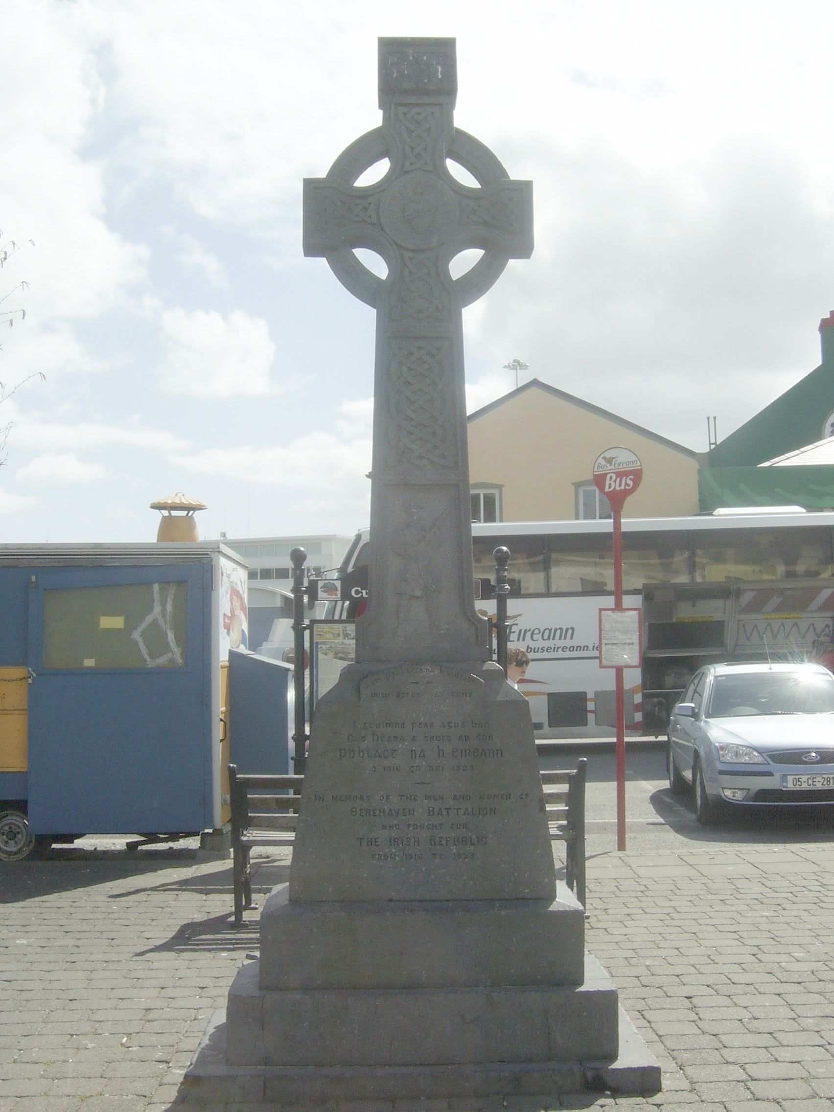 Iarthair Chorcaí 203 My own pic